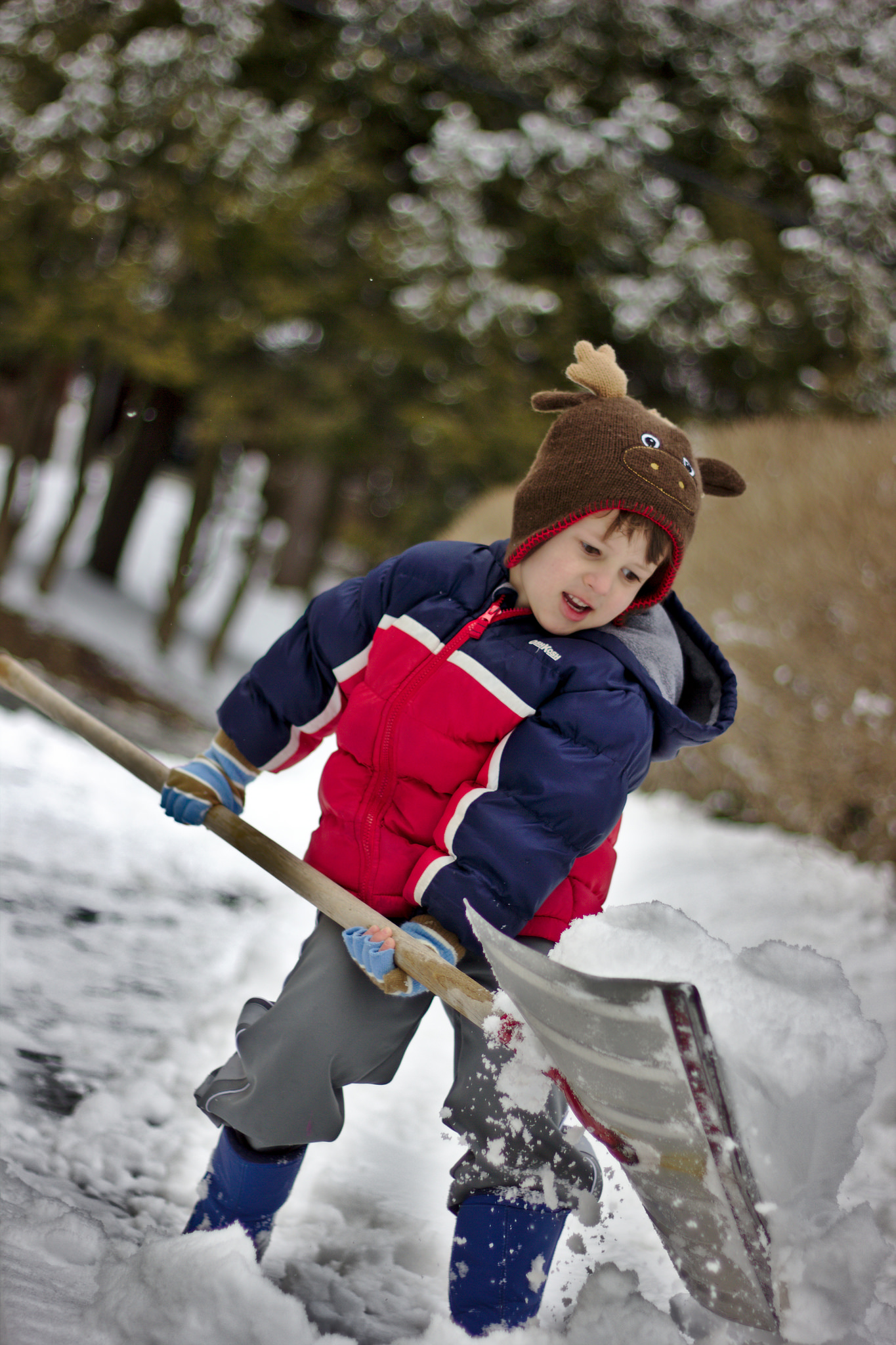 A child (age 4) in Pittsburgh, Pennsylvania, removing snow from a driveway using a metal-bladed wooden-handled snow shovel.